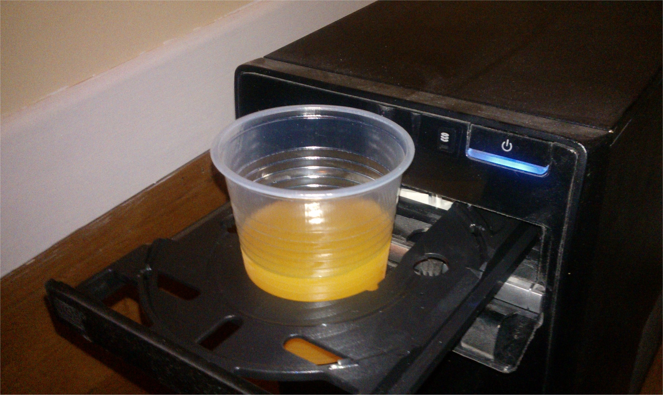 cd reader used as a cup holder